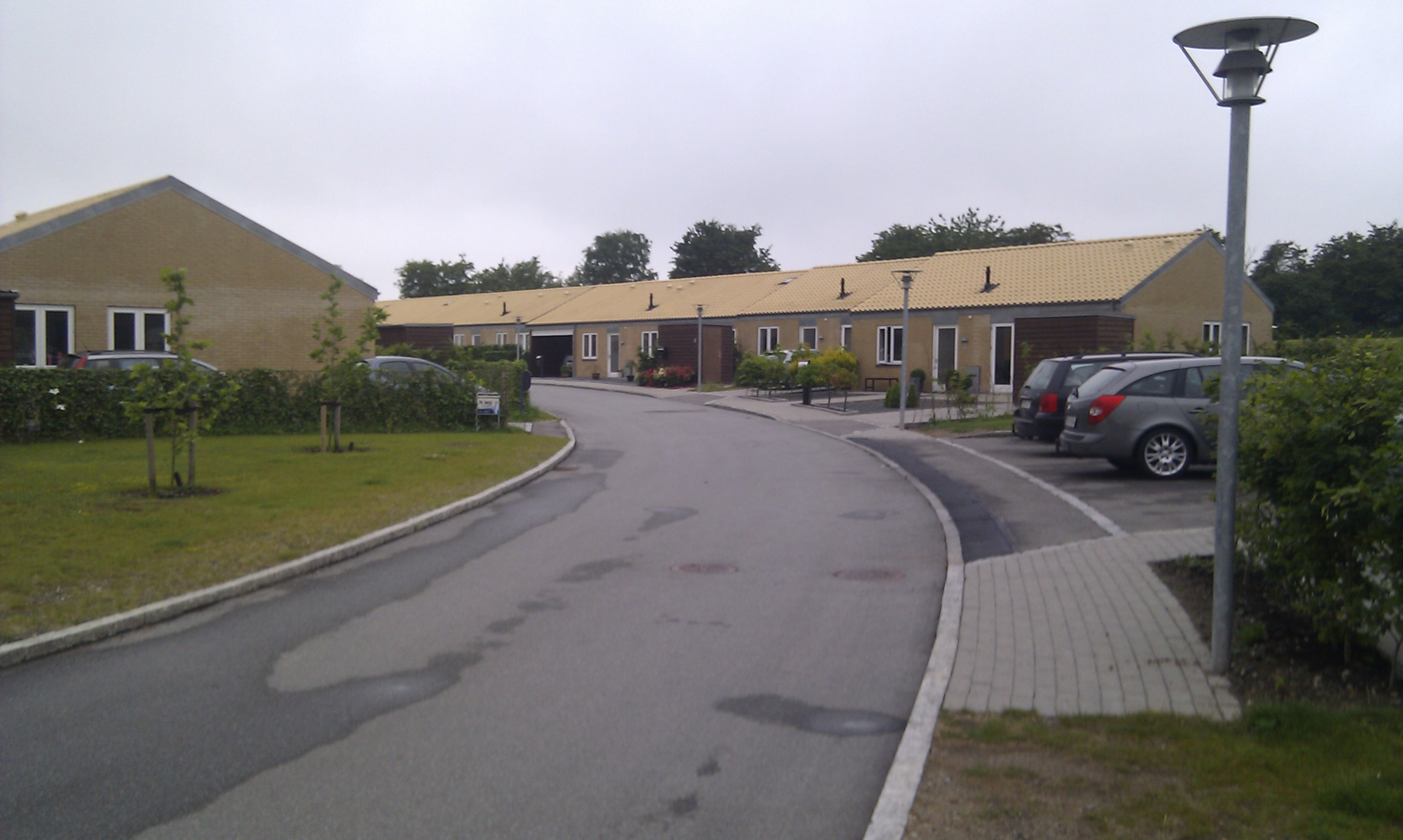 Housing district in Holbæk, Denmark